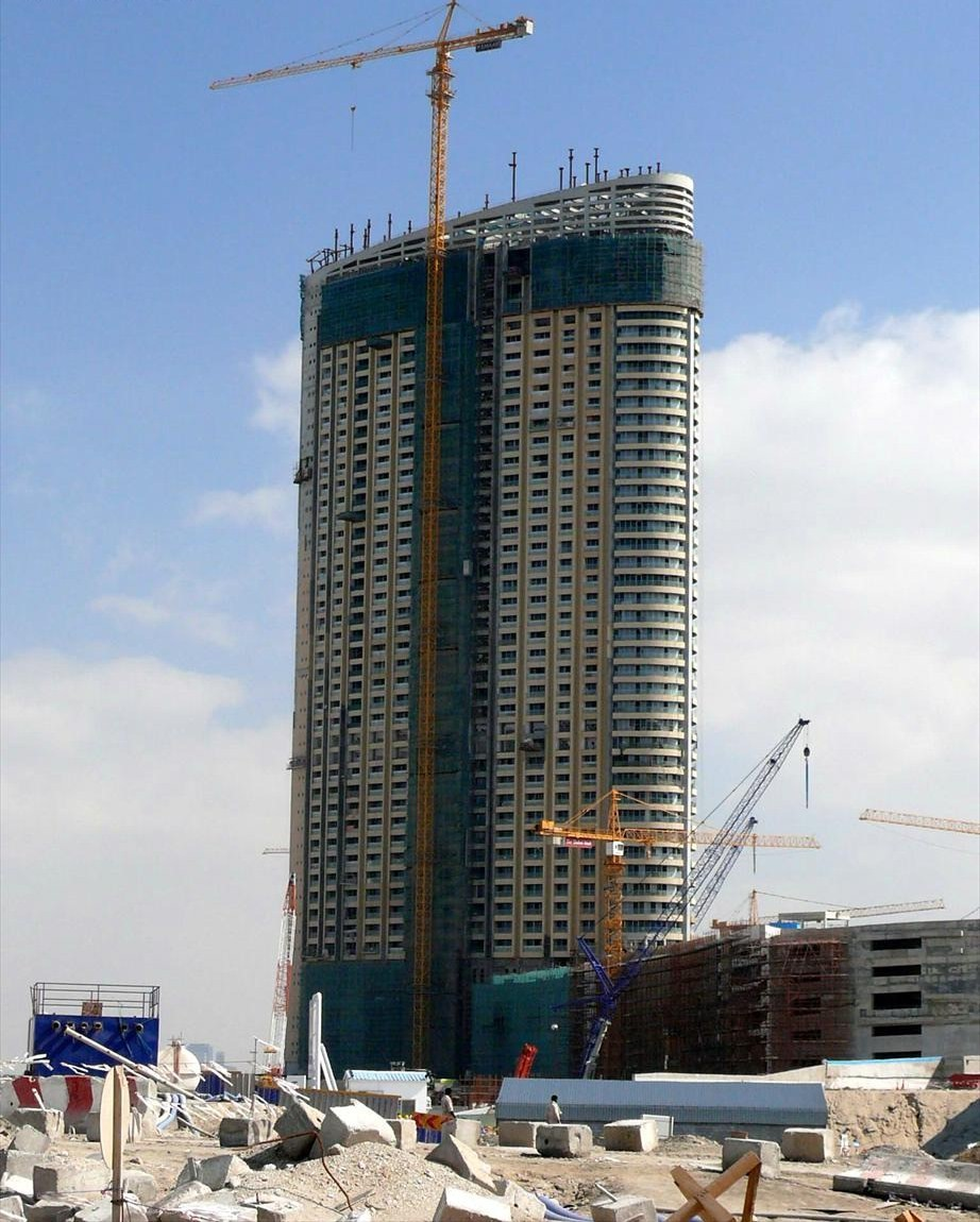 This is a photo showing the construction of the Dubai Mall Hotel, located in Downtown Dubai in Dubai, United Arab Emirates on 25 January 2008. The building seen at the base of the tower is the Dubai Mall.